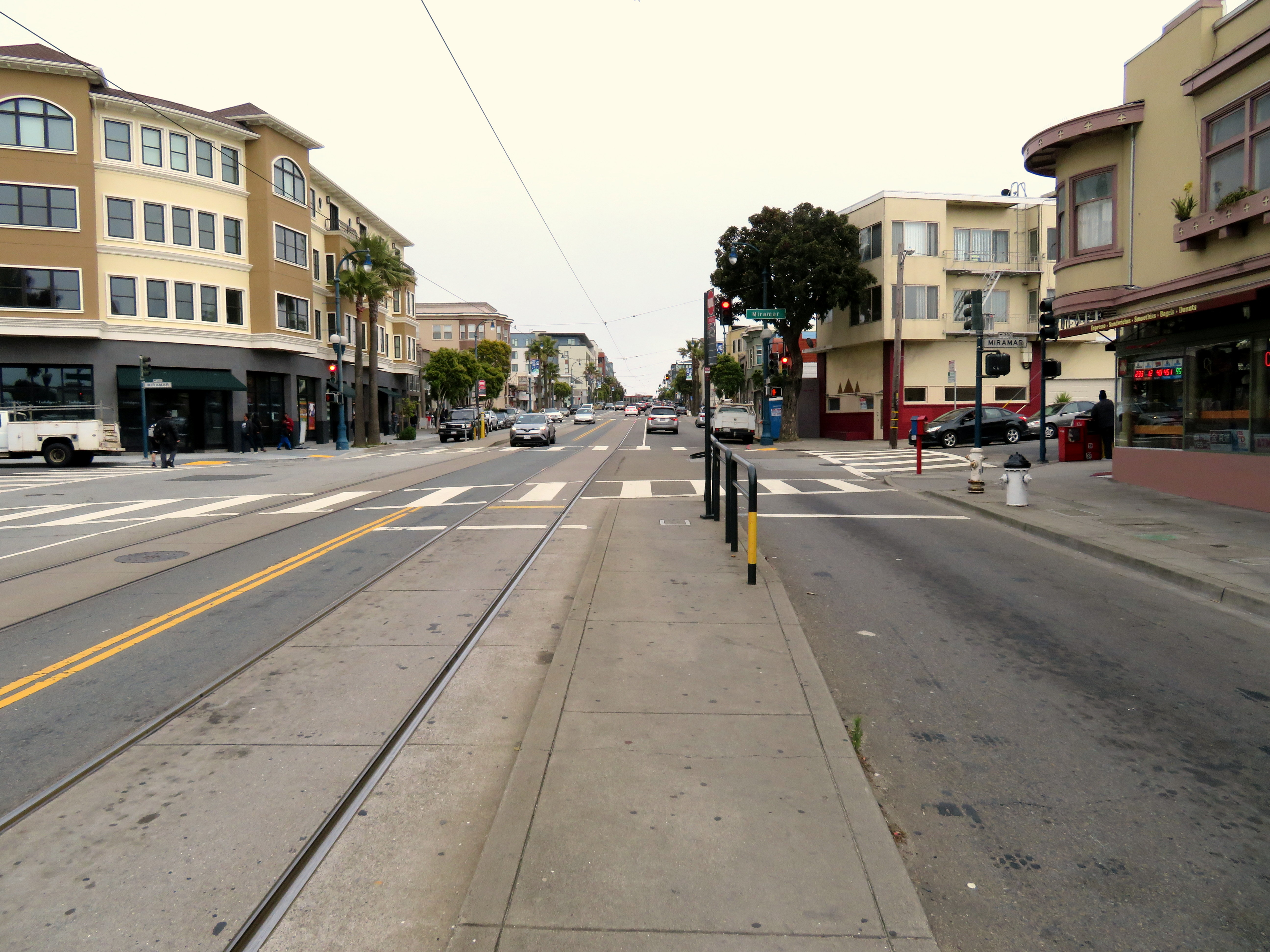 Outbound platform at Ocean and Miramar in May 2018